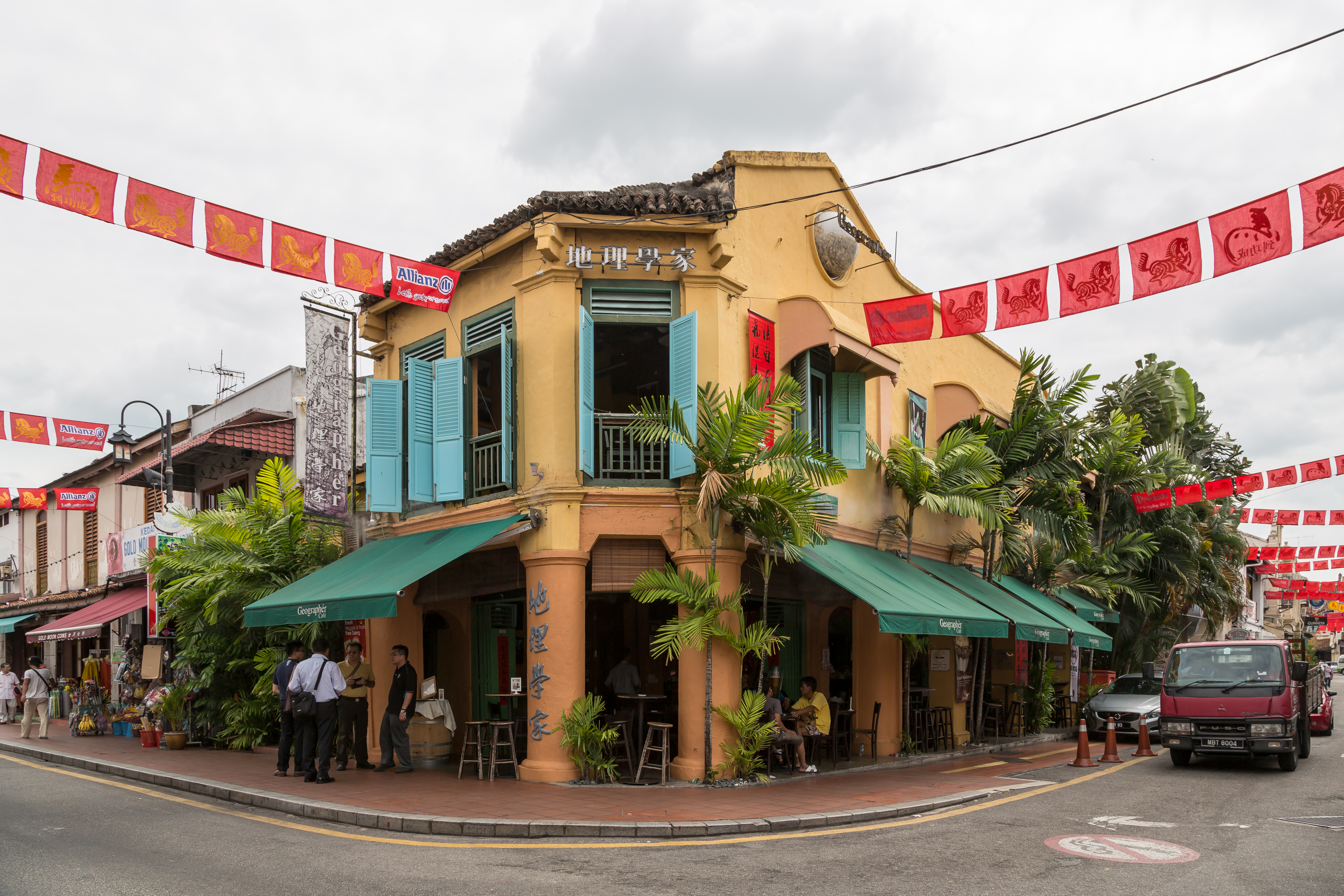 Malacca, Malaysia: Geographer Café at Jonker Walk